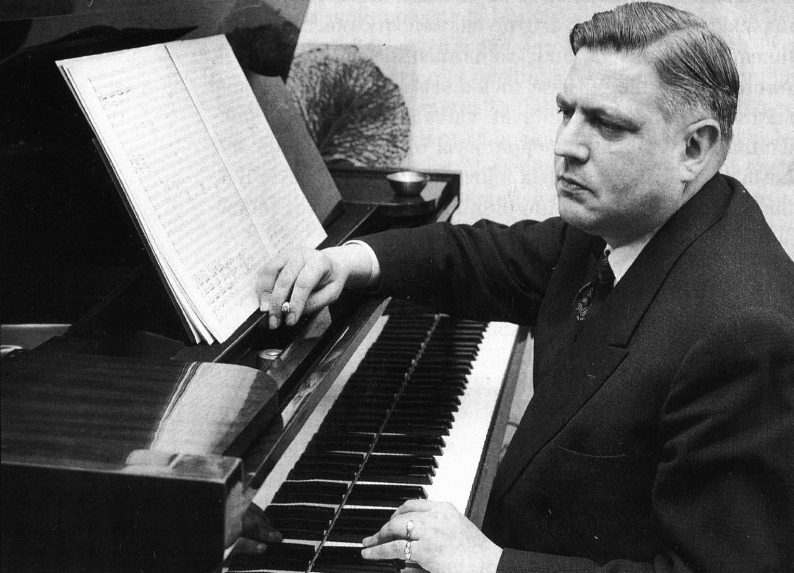 Photograph of the Finnish composer Tauno K. Pylkkänen (1918–1980).